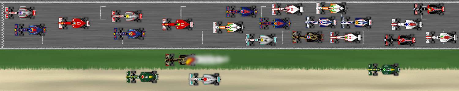 Race result of the 2011 Hungarian Grand Prix in Budapest